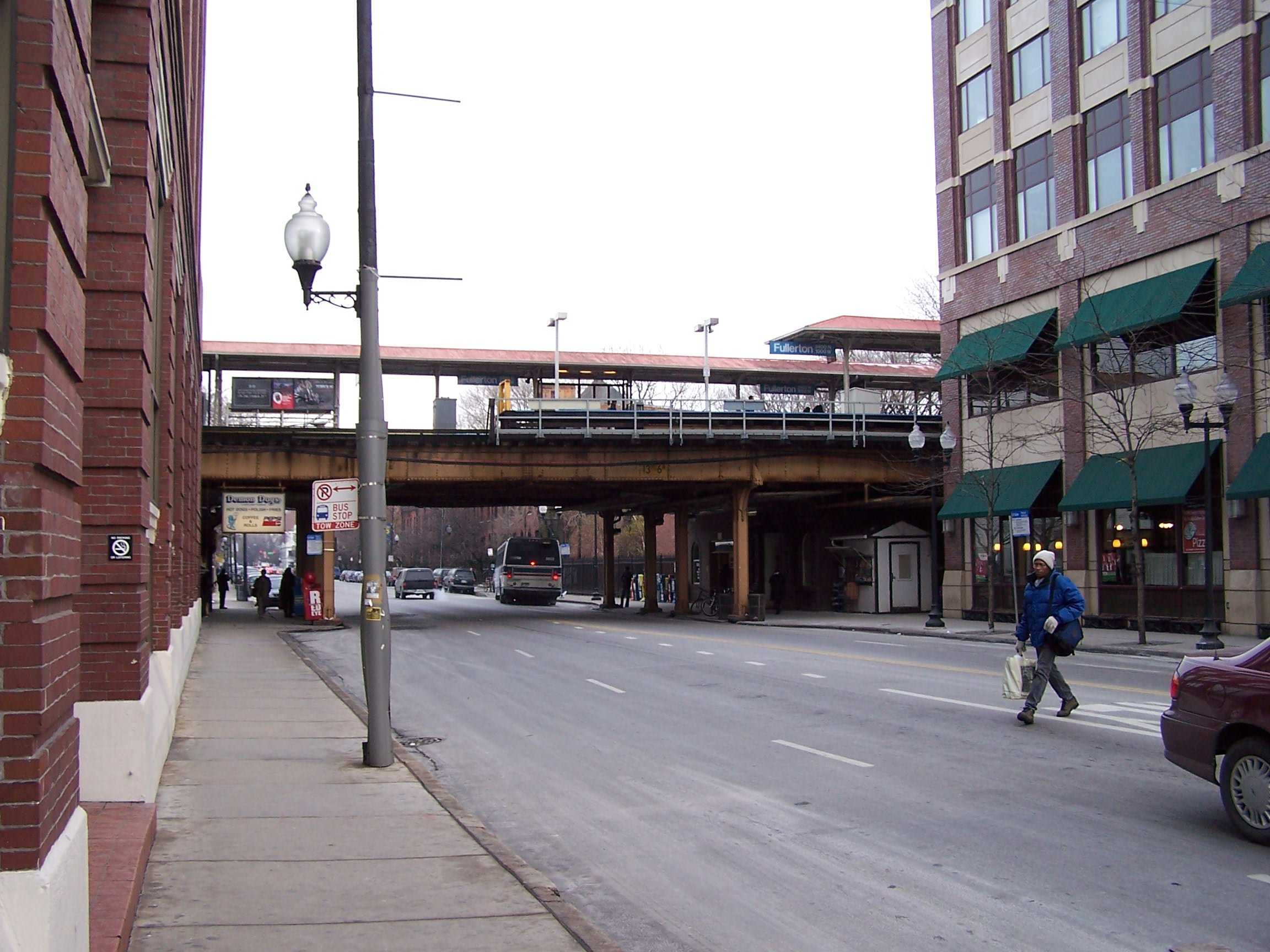 Photograph of Fullerton CTA station in Chicago, Illinois. Taken from the intersection of Fullerton and Sheffield on December 18, 2003